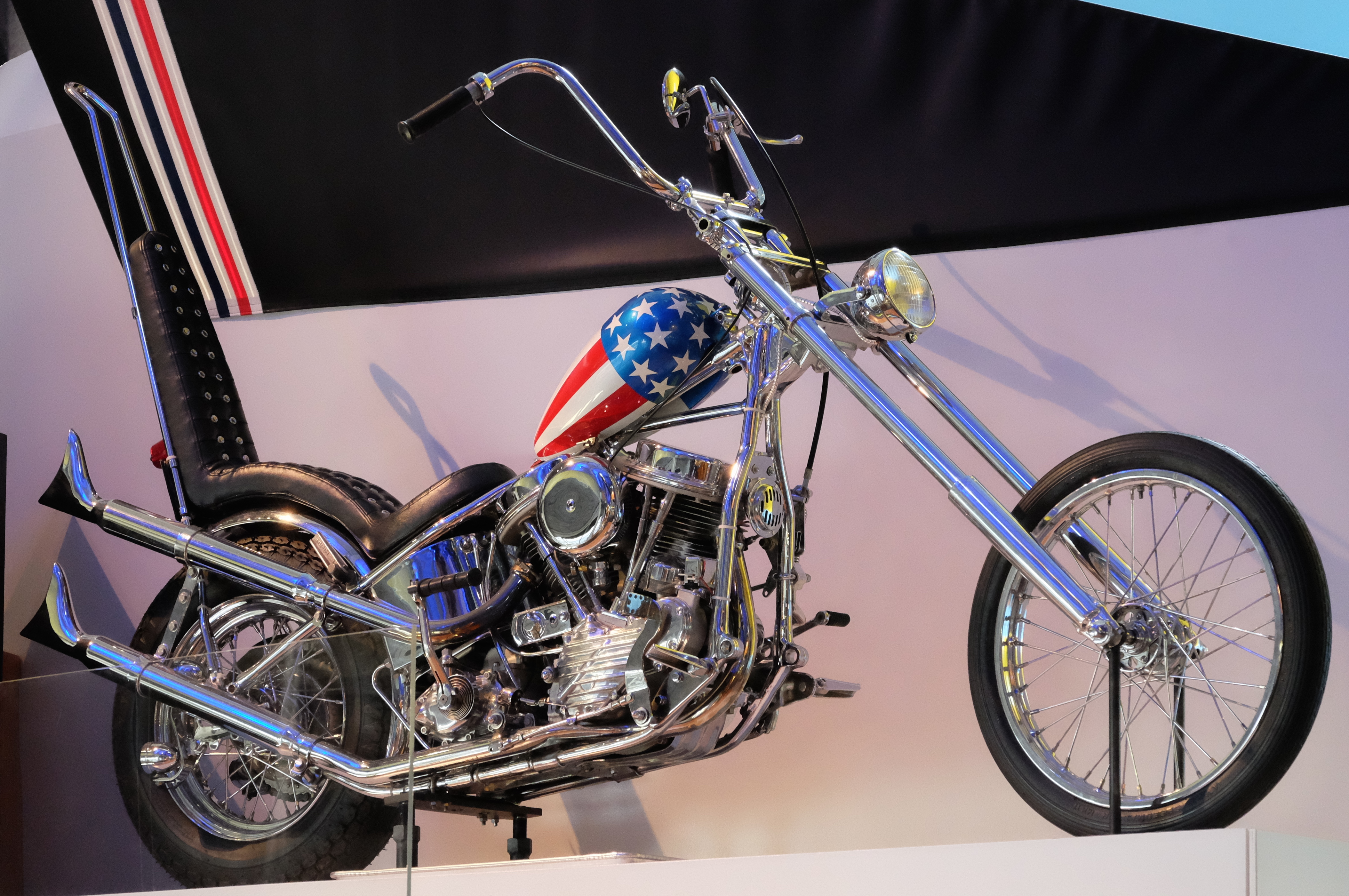 The Captain America chopper at the EMP Museum